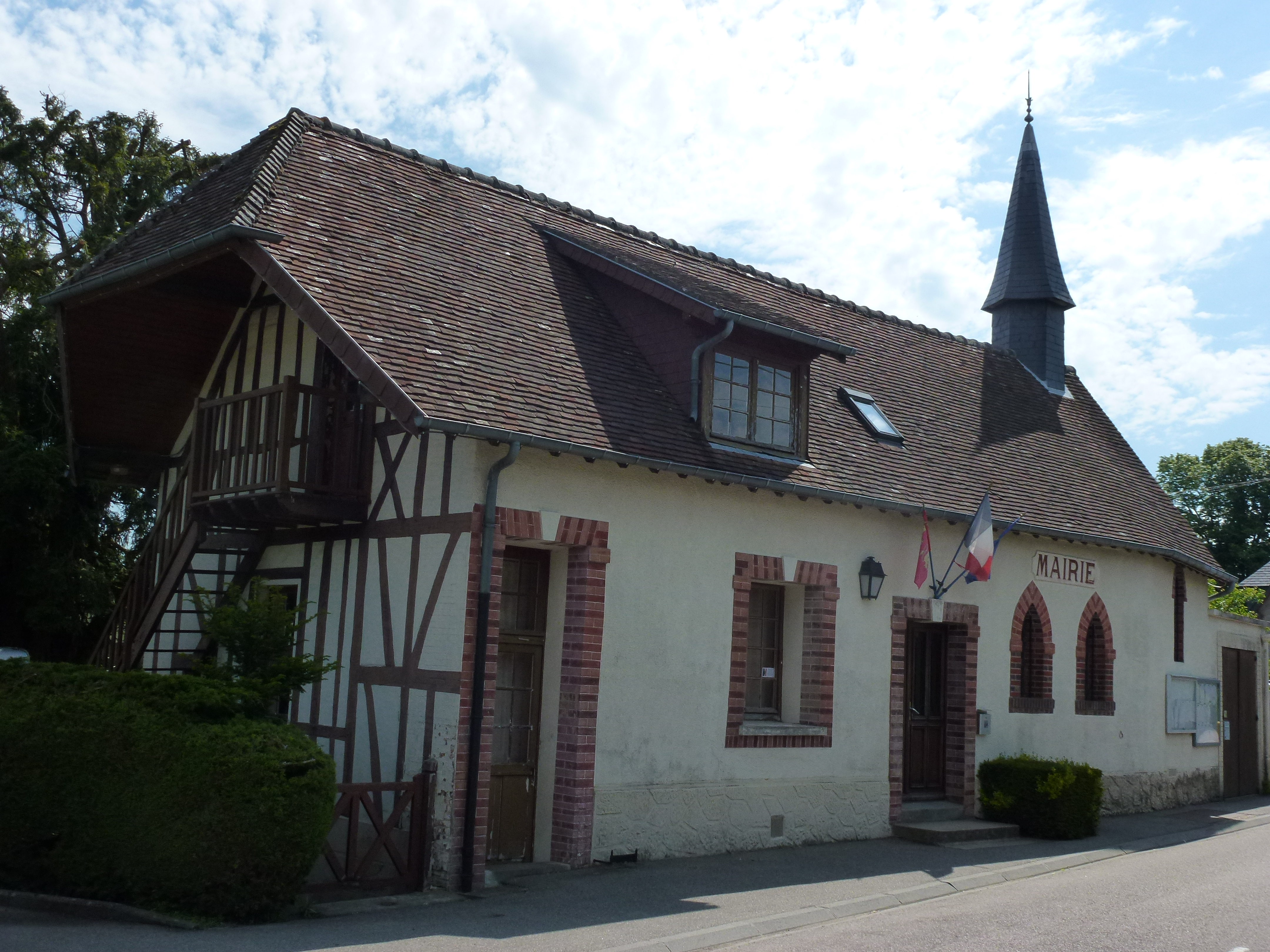 Grosly-sur-Risle (Eure, Fr) mairie